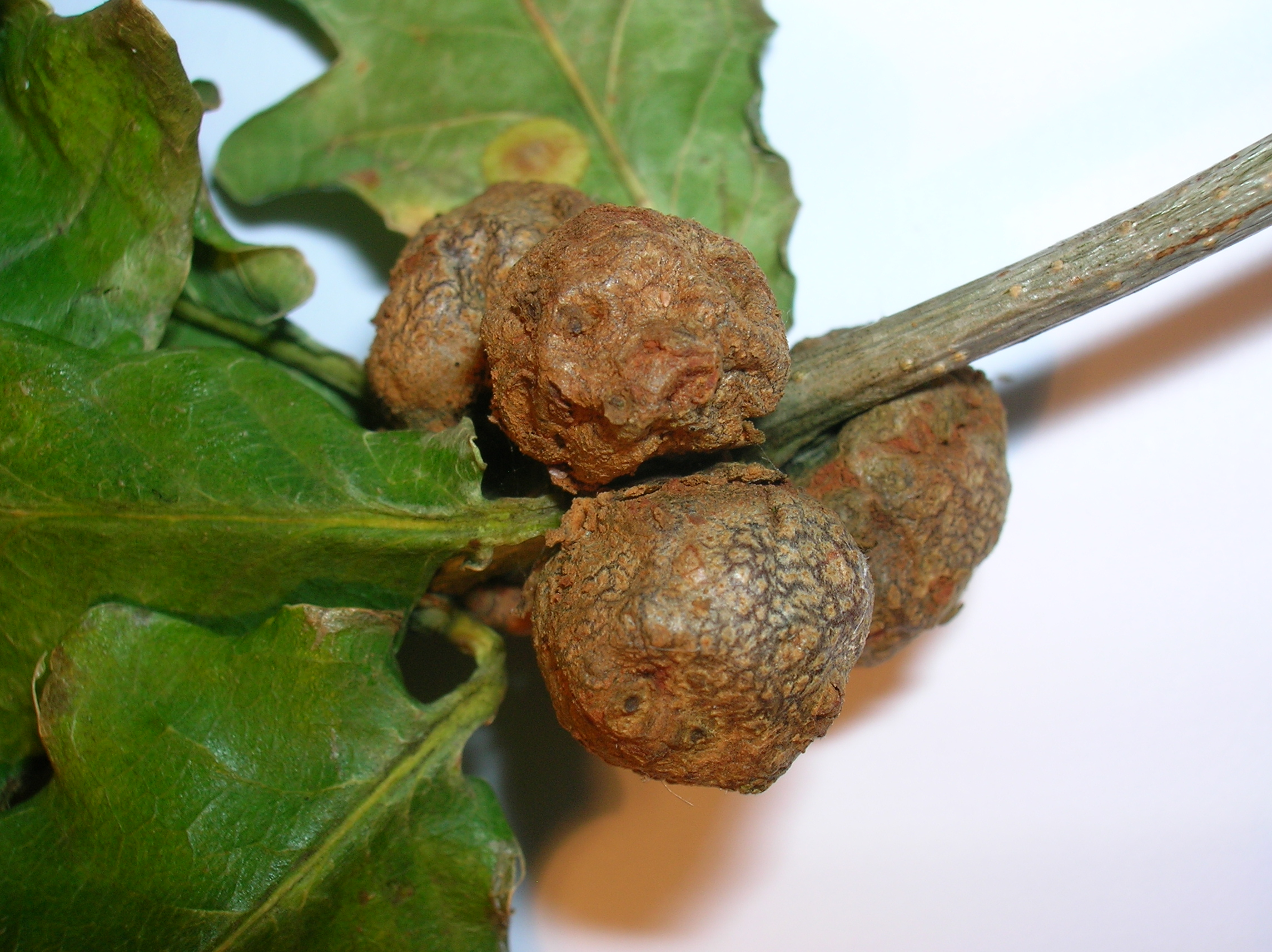 Cola-nut gall (Andricus lignicola) on Peduculate Oak (Quercus robur)